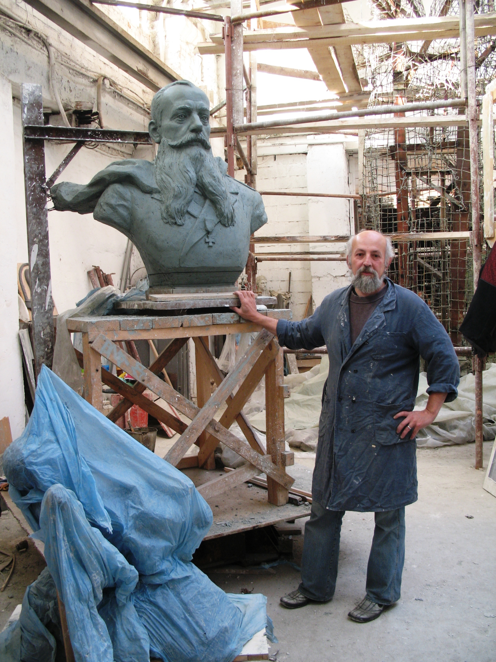 Fishman Peter's work